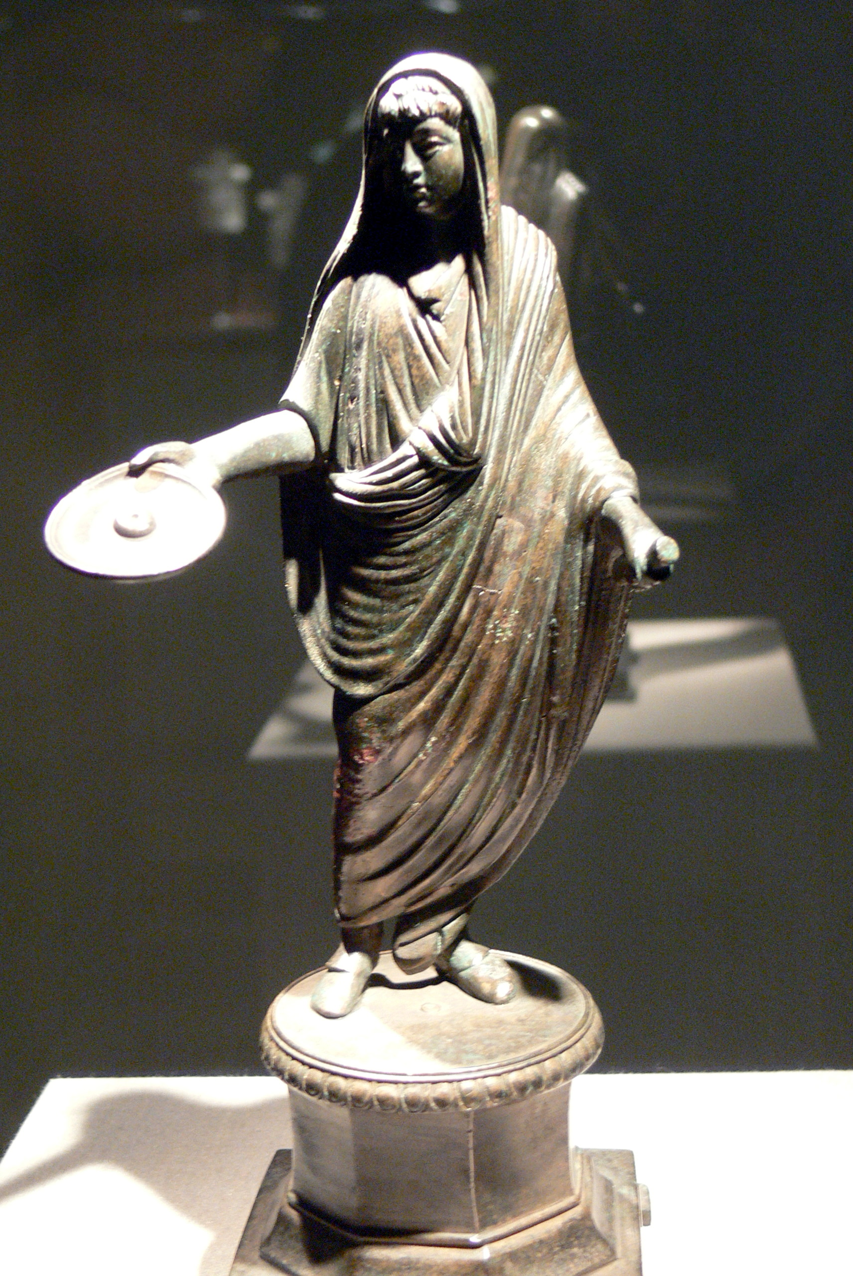 Weißenburg ( Bavaria ). Roman Museum: Bronze statue of priest in toga ( 2nd/3rd century AD ).